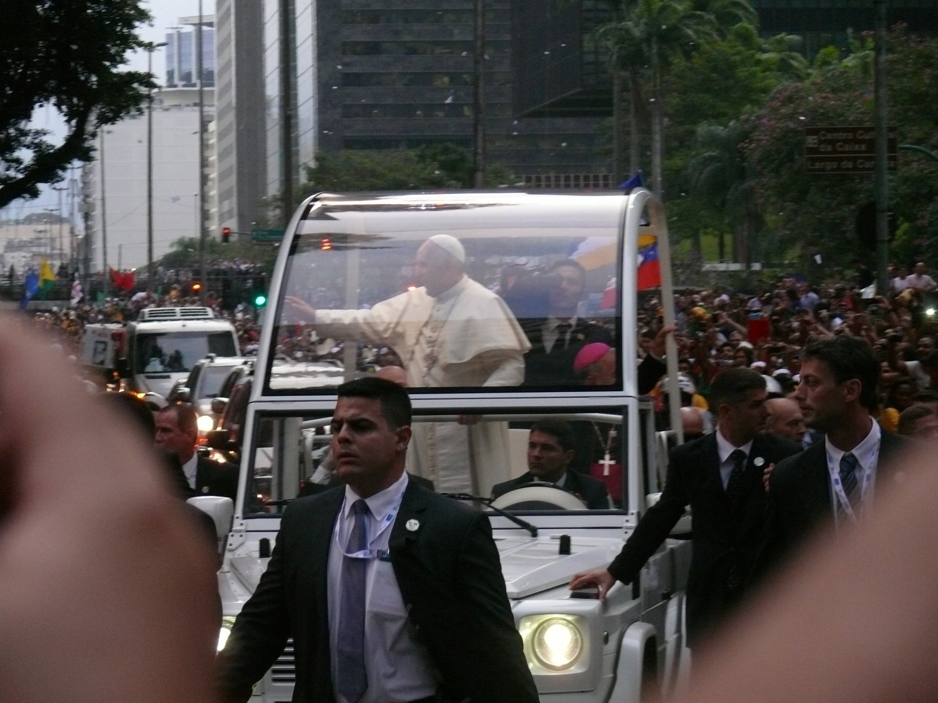 The 2013 World Youth Day in Rio de Janeiro (Brésil).